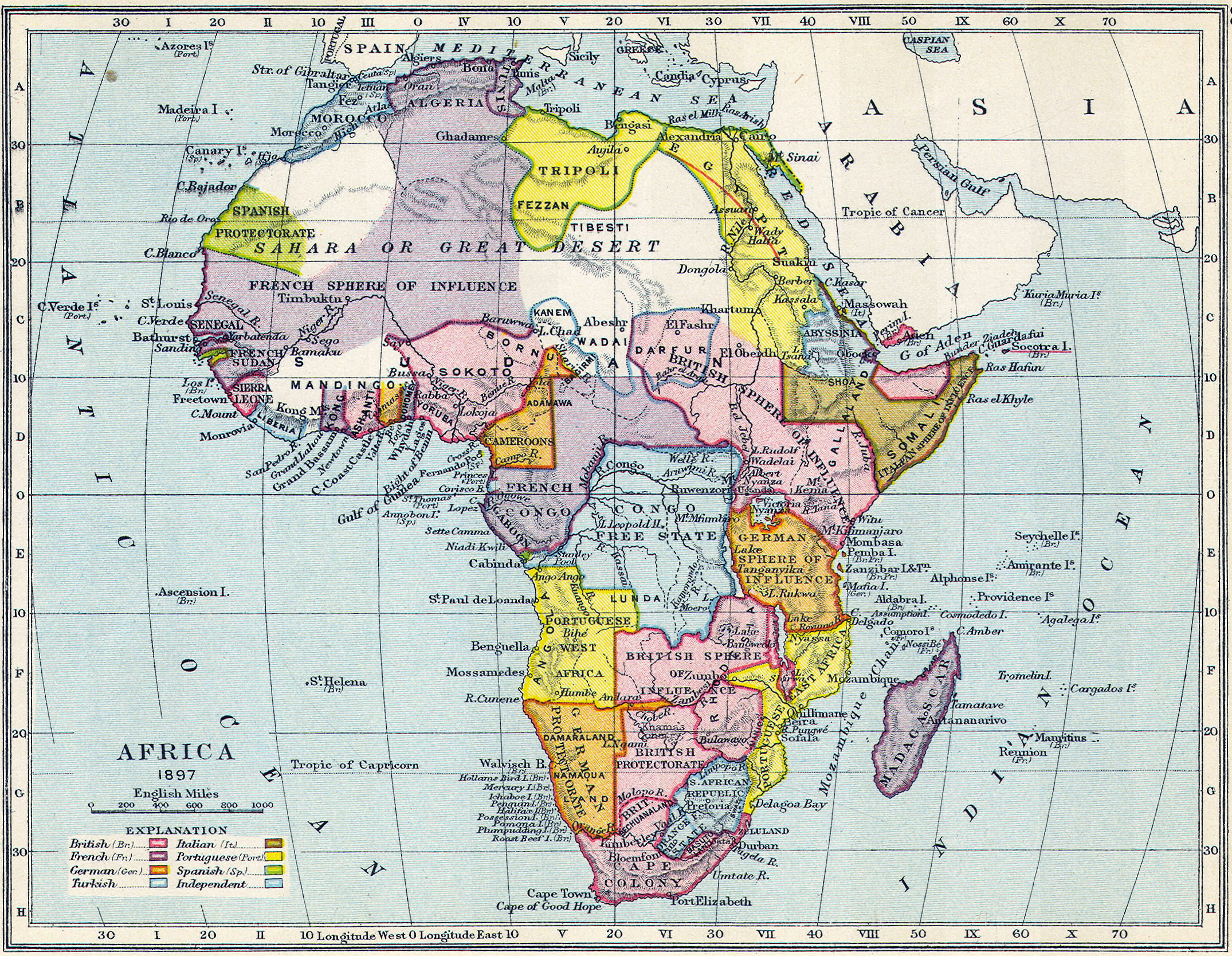 Map of colonial Africa in 1897.